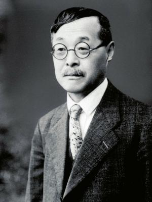 津田左右吉 / Japanese historian Sōkichi Tsuda(1873–1961)